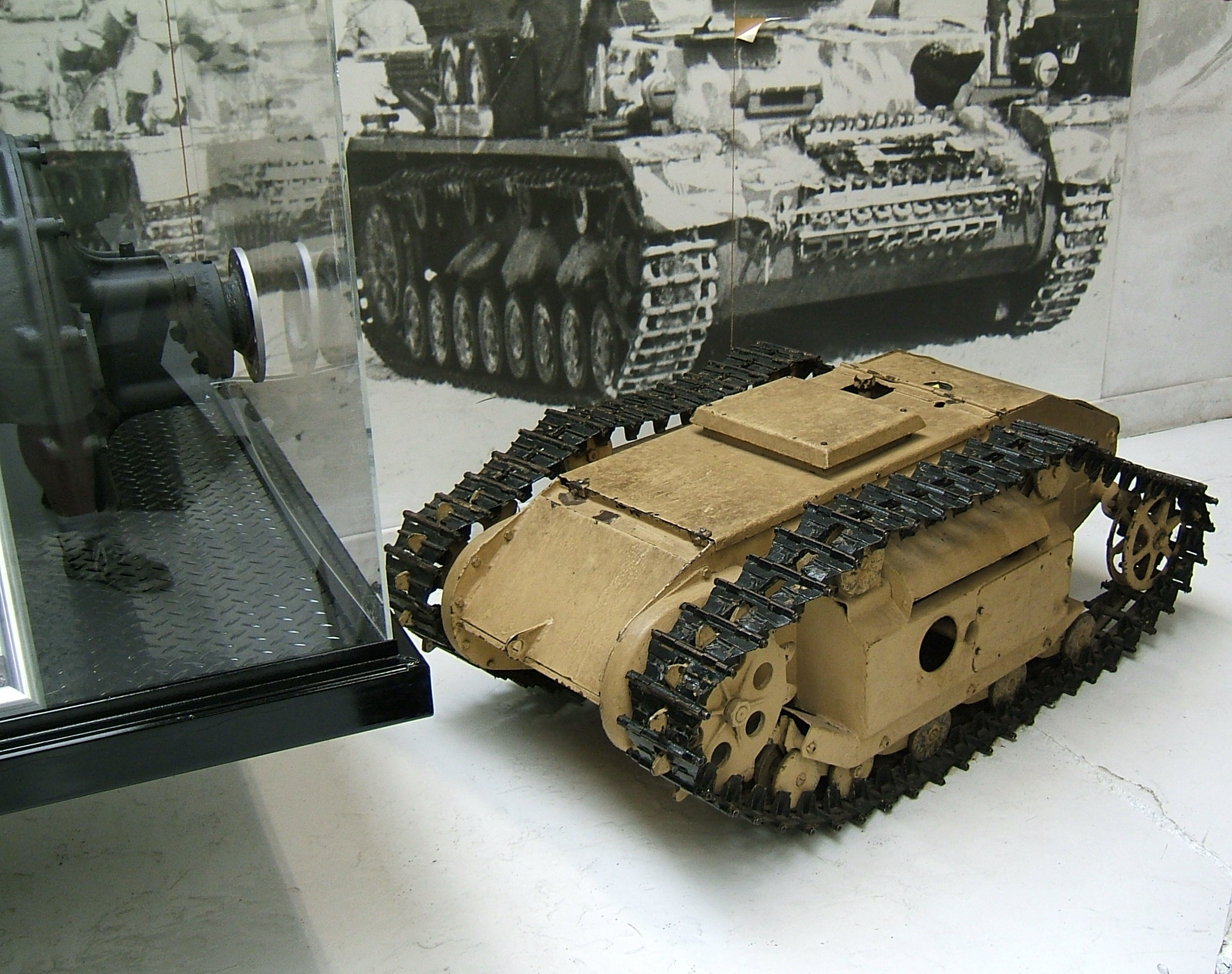 Goliath tracked mine at the Bovington Tank Museum